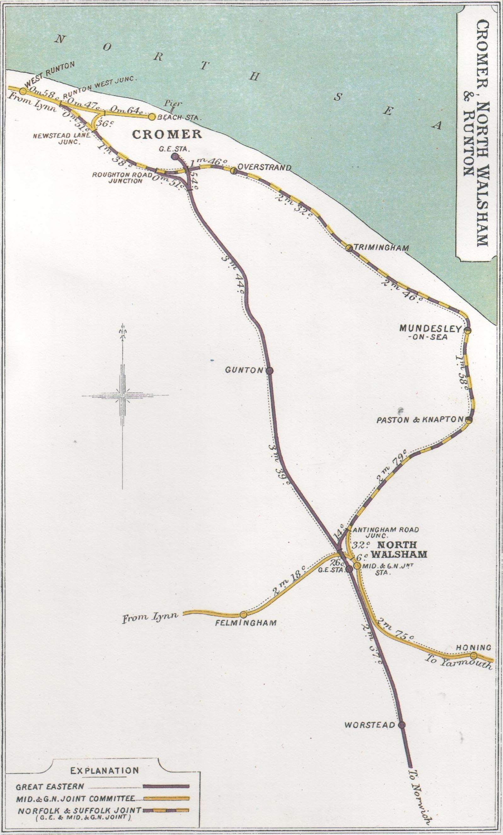 Railway junctions around Cromer, North Walsham & Runton